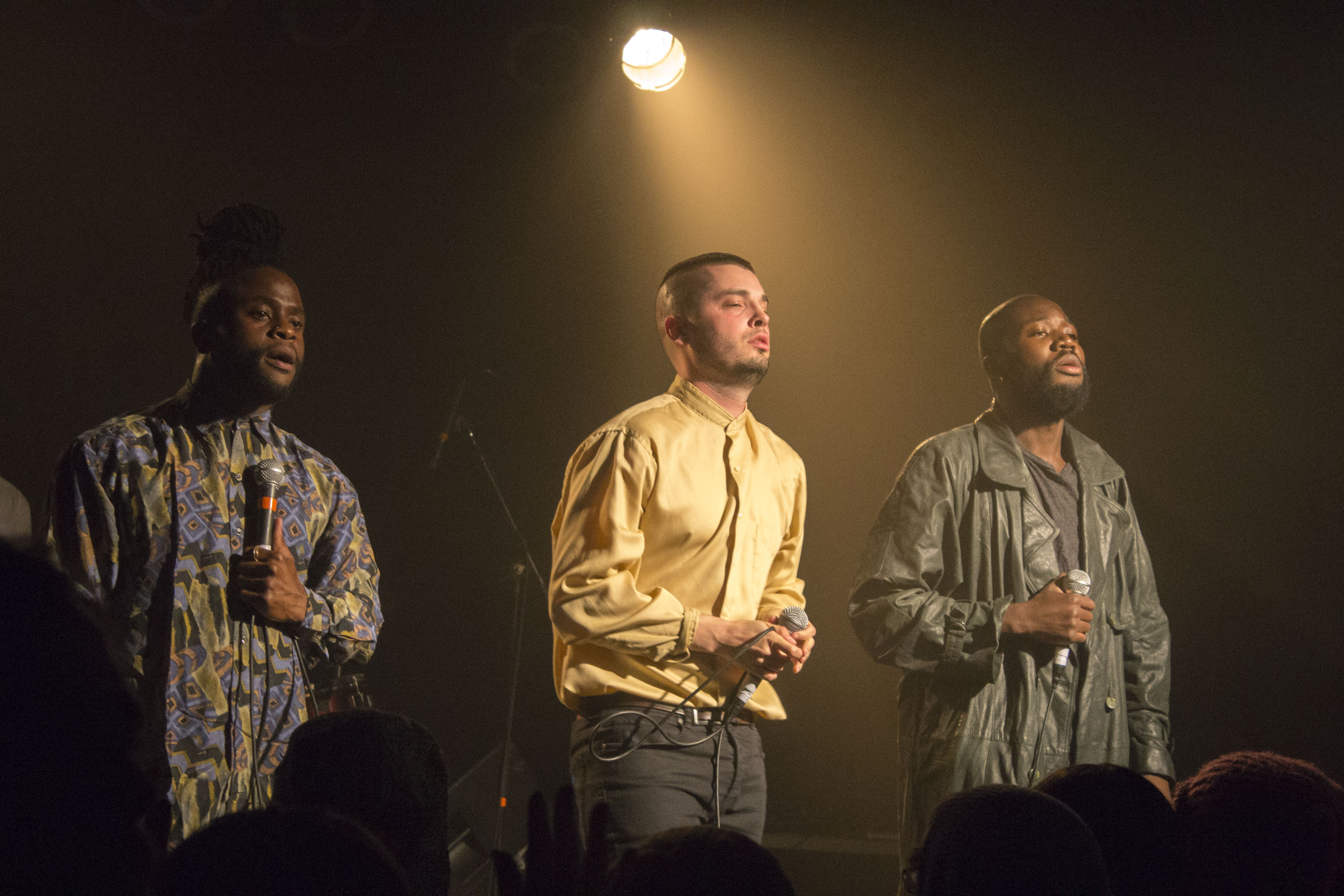 Band Young Father performing in Portland ME